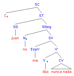 Syntax tree with "no" occupying the negation nucleus